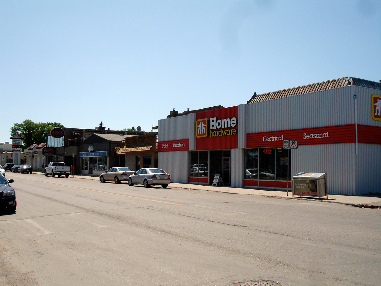 Central Avenue, the main street in the neighbourhood (and former town) of Sutherland in Saskatoon, Saskatchewan, Canada.